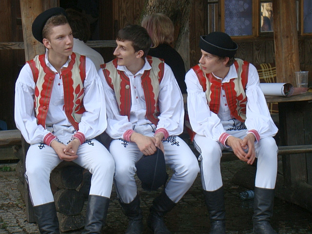 Jarmark Folklorystyczny in Sanok